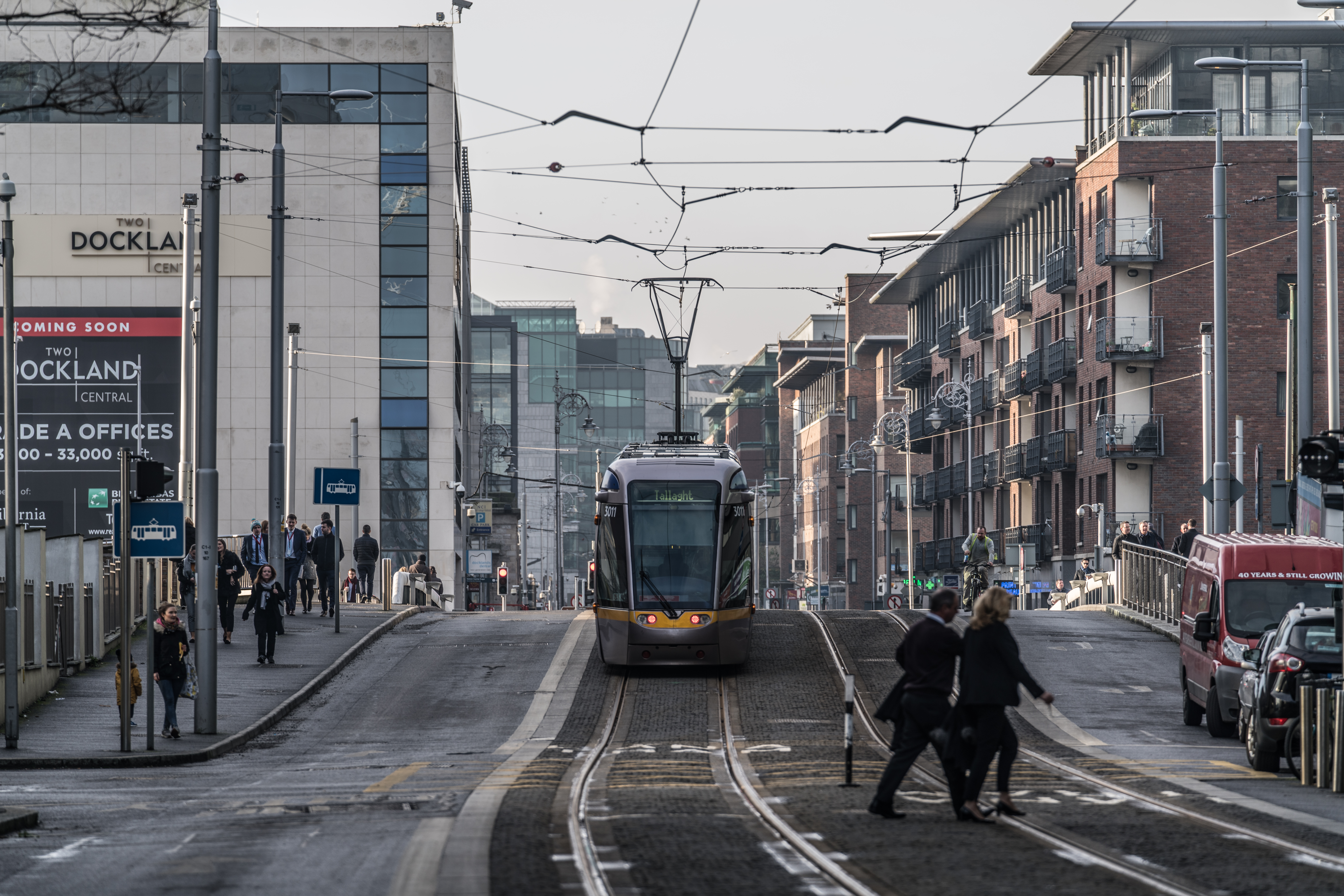 Spencer Dock is a location within the North Wall area of Dublin. Occupants of Spencer Dock include the Convention Centre Dublin, Central Bank of Ireland, Nationwide Building Society, Credit Suisse and the TMF Group. The Luas Red Line which runs from Tallaght to The Point has a Spencer Dock stop. The Red Line extension opened on 9 December 2009. Now that the Luas Cross City project is completed passengers from Spencer Dock can change onto the Luas Green Line at the Abbey Street stop. Spencer Dock is also served by the Docklands railway station on Sheriff Street, at the north end of the site. Commuter services to Docklands on the Western Commuter line began in March 2007.